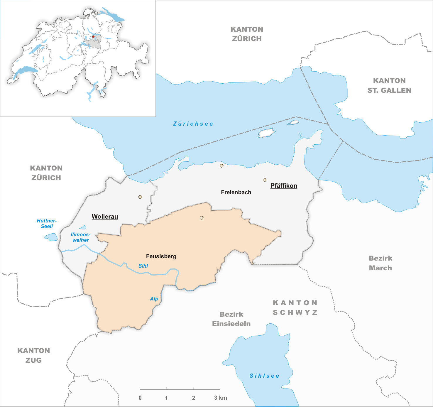 Municipality Feusisberg